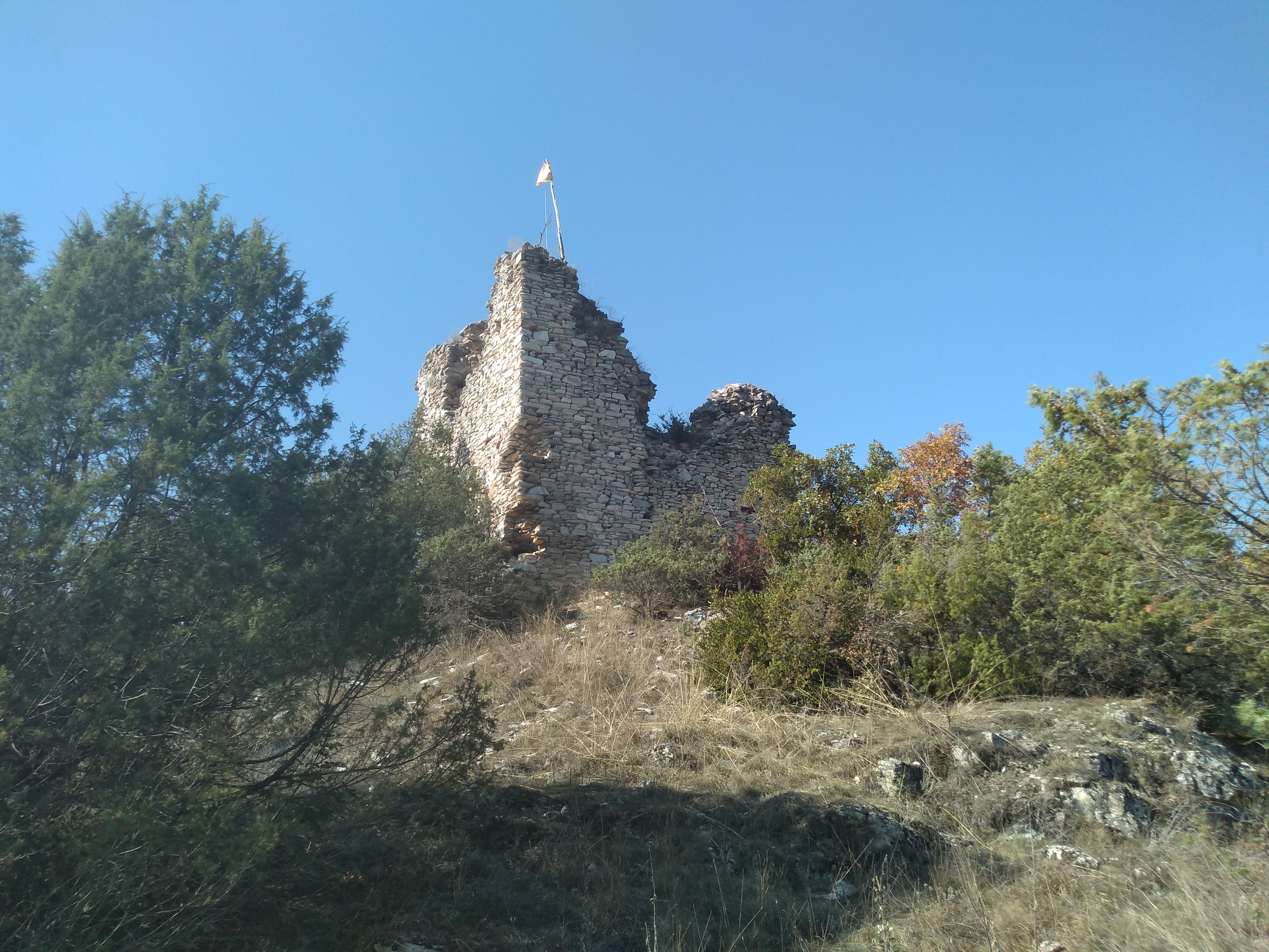 Devini Kuli, medieval and antiquity fortress near Devich in Poreche region, Macedonia